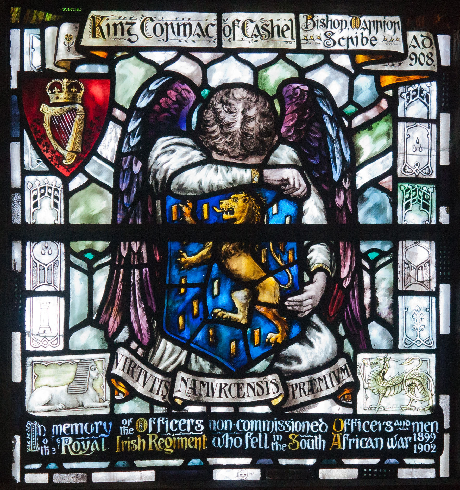 Lower section of the stained glass window in the east wall of the north transept, showing in its centre the arms of King William III (of the House of Nassau) who granted the right to display it to the Royal Irish Regiment along with the harp and the crown (upper left corner) in 1695. Below the arms is the motto of the regiment: Virtutis Namurcensis Præmium. Designed by Sarah Purser (died 1943), painted by Alfred E. Child (died 1939), and executed by An Túr Gloine in Dublin in 1906.